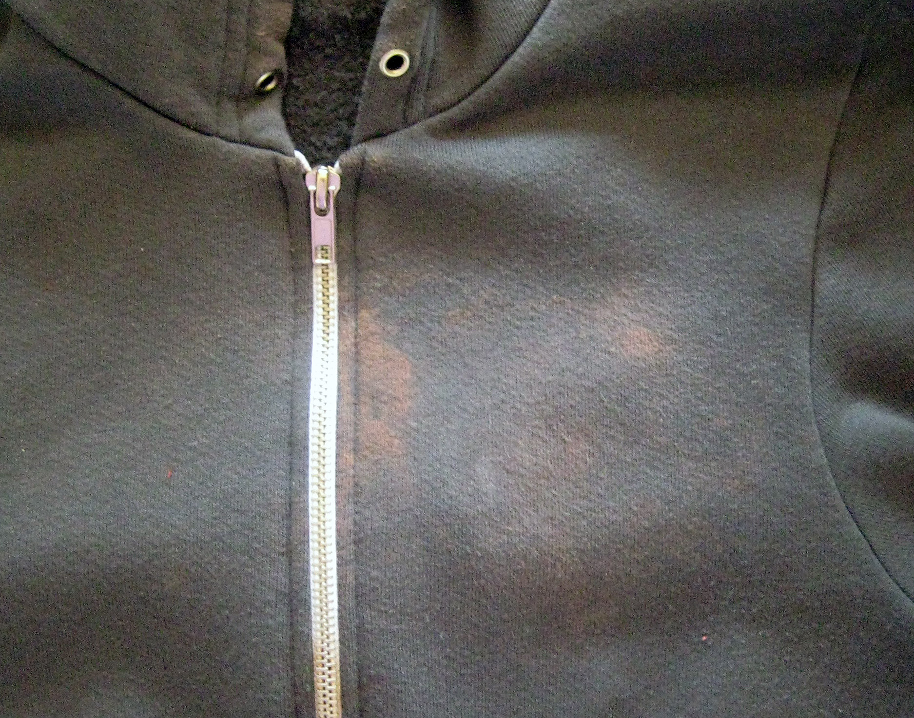 the bleached stain from a benzoyl peroxide containing consumer product